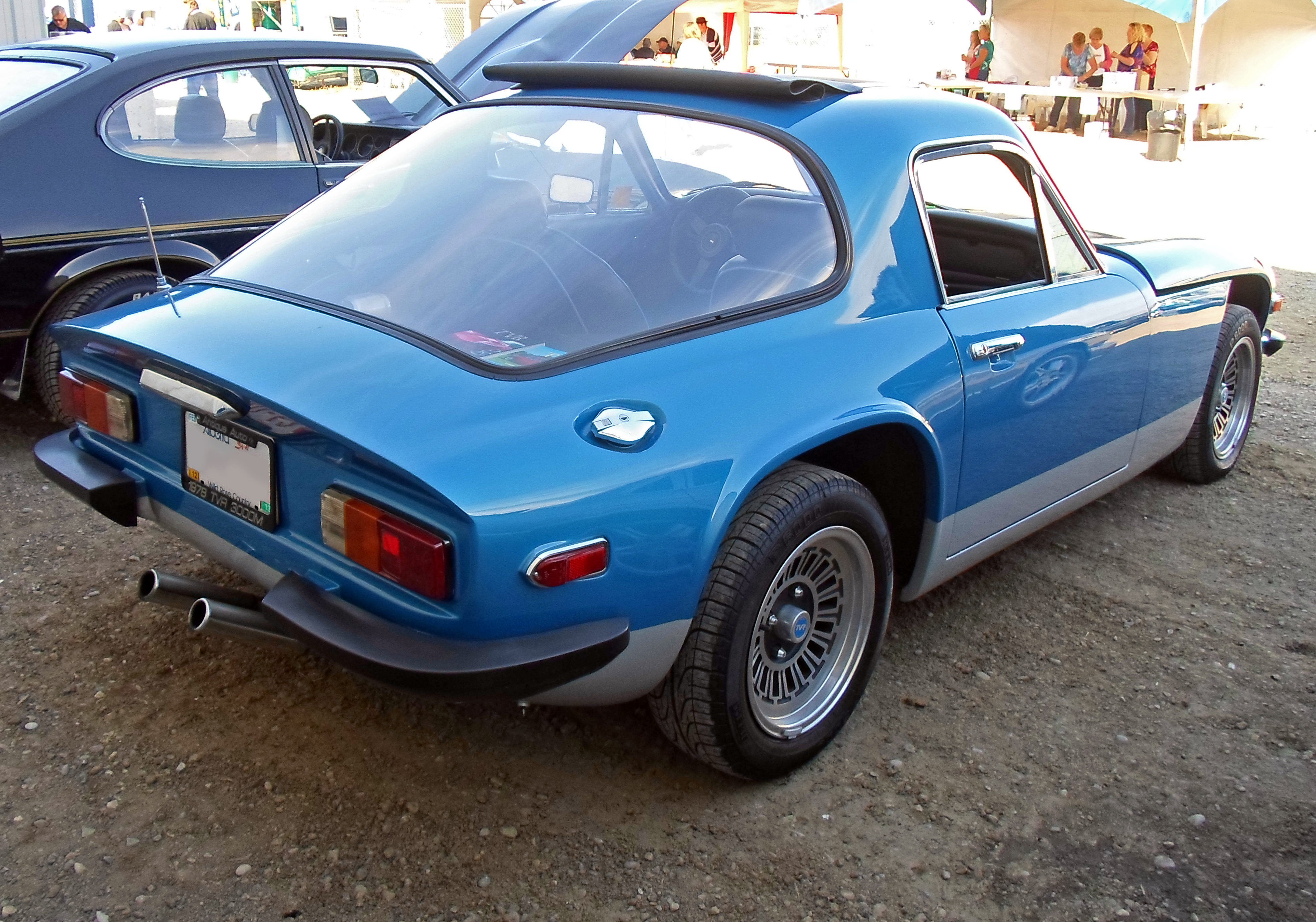 A 1978 TVR 3000M